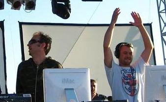 Sasha (left) at an August 2006 performance with Spooky (Duncan Forbes center and Charlie May right)